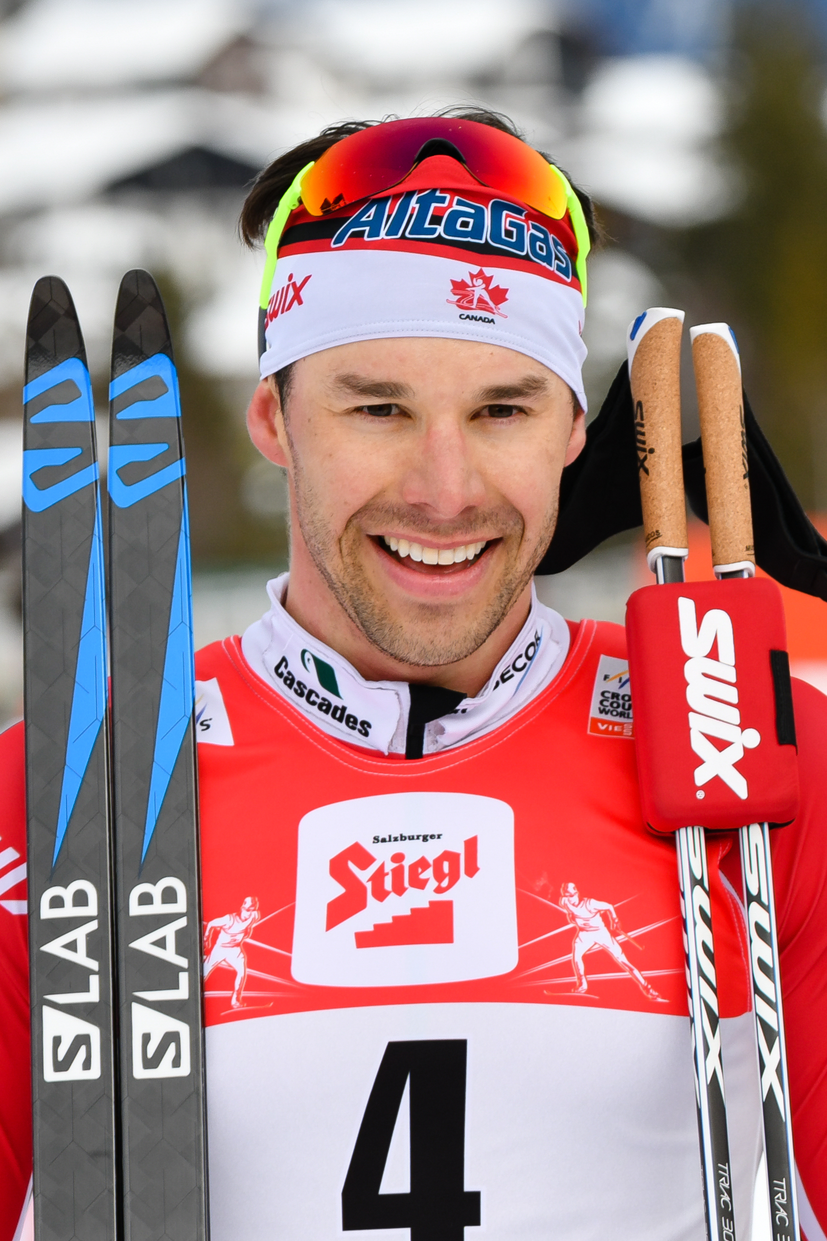 Seefeld-Triple 2018, third day January 28th. Picture shows HARVEY Alex (CAN).